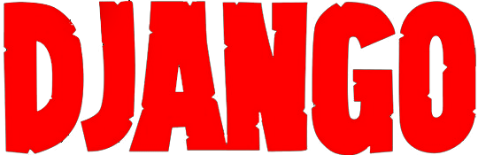 Logo of the film Django (1966) by Sergio Corbucci.